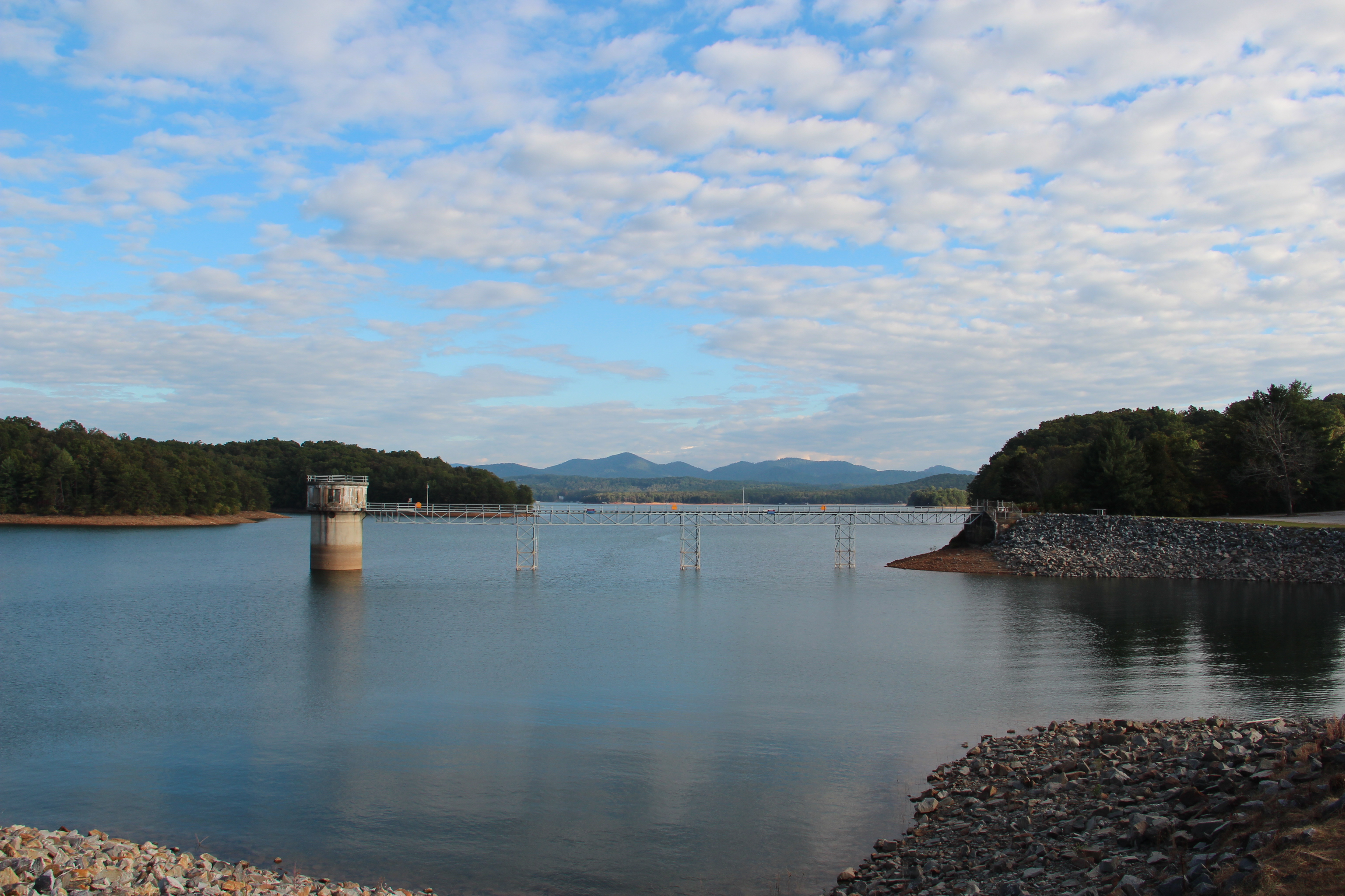 Lake Blue Ridge, viewed from Blue Ridge Dam